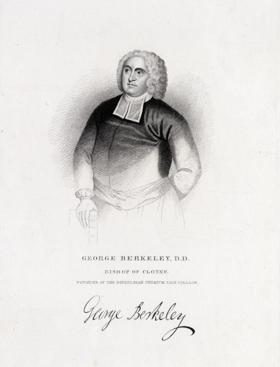 "George Berkeley, Bishop of Cloyne," etching. Courtesy of the Yale University Manuscripts & Archives Digital Images Database, Yale University, New Haven, Connecticut.